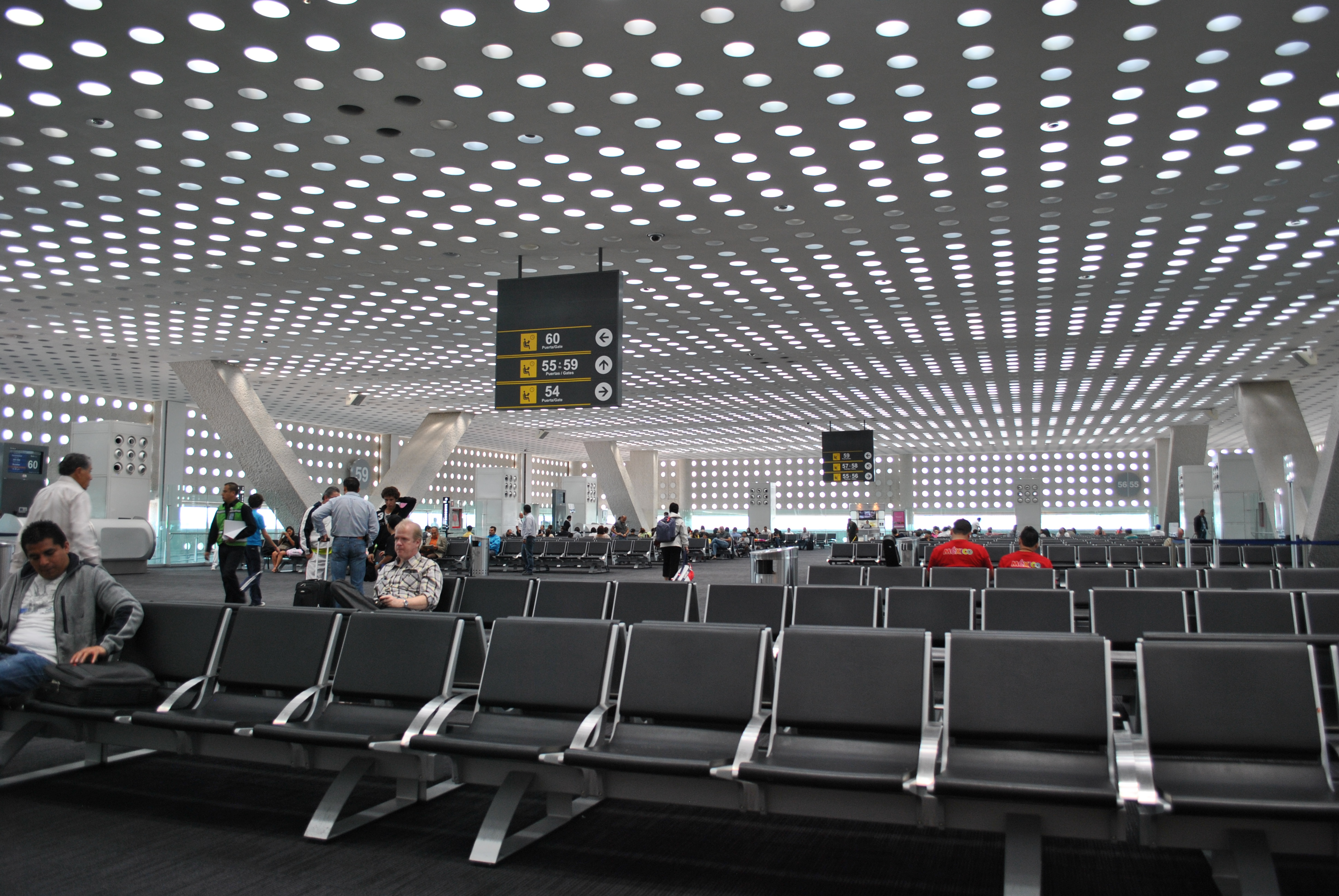 Departures waiting area on Terminal 2. Mexico City International Airport.